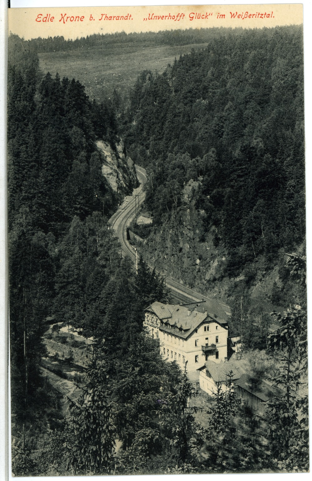 This postcard is from publisher Brück & Sohn in Meißen ( This postcard has a unique number 04518 and is available in a higher resolution at the publisher. This images was uploaded in a cooperation project between Wikipedians and the publisher.